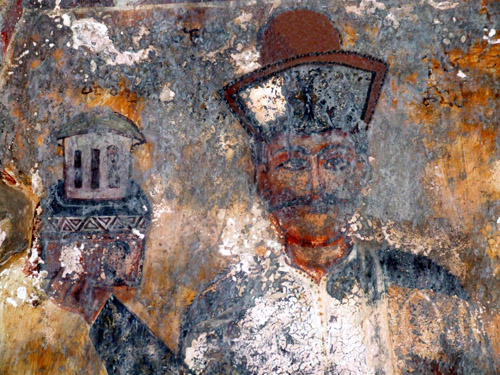 Levan I Dadiani, Prince of Mingrelia. A fresco from Tsalenjikha Cathedral, Georgia.